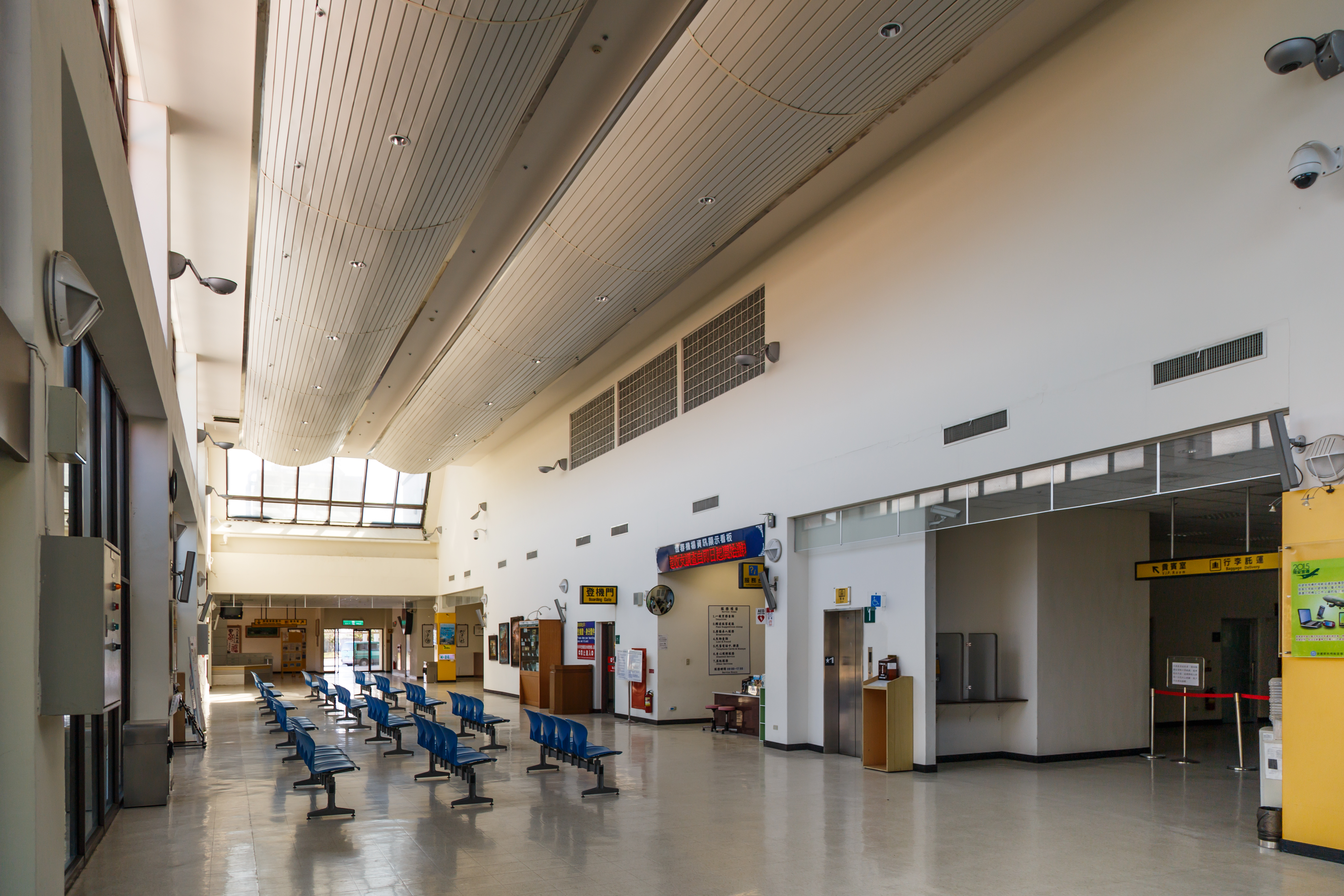 Hengchun Township, Taiwan: Terminal of Hengchun Airport